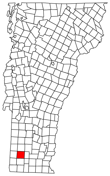 Description: Map of Vermont towns with Glastenbury highlighted Source: Map created by Jared C. Benedict on 26 March 2004. Copyright: © Jared C. Benedict.